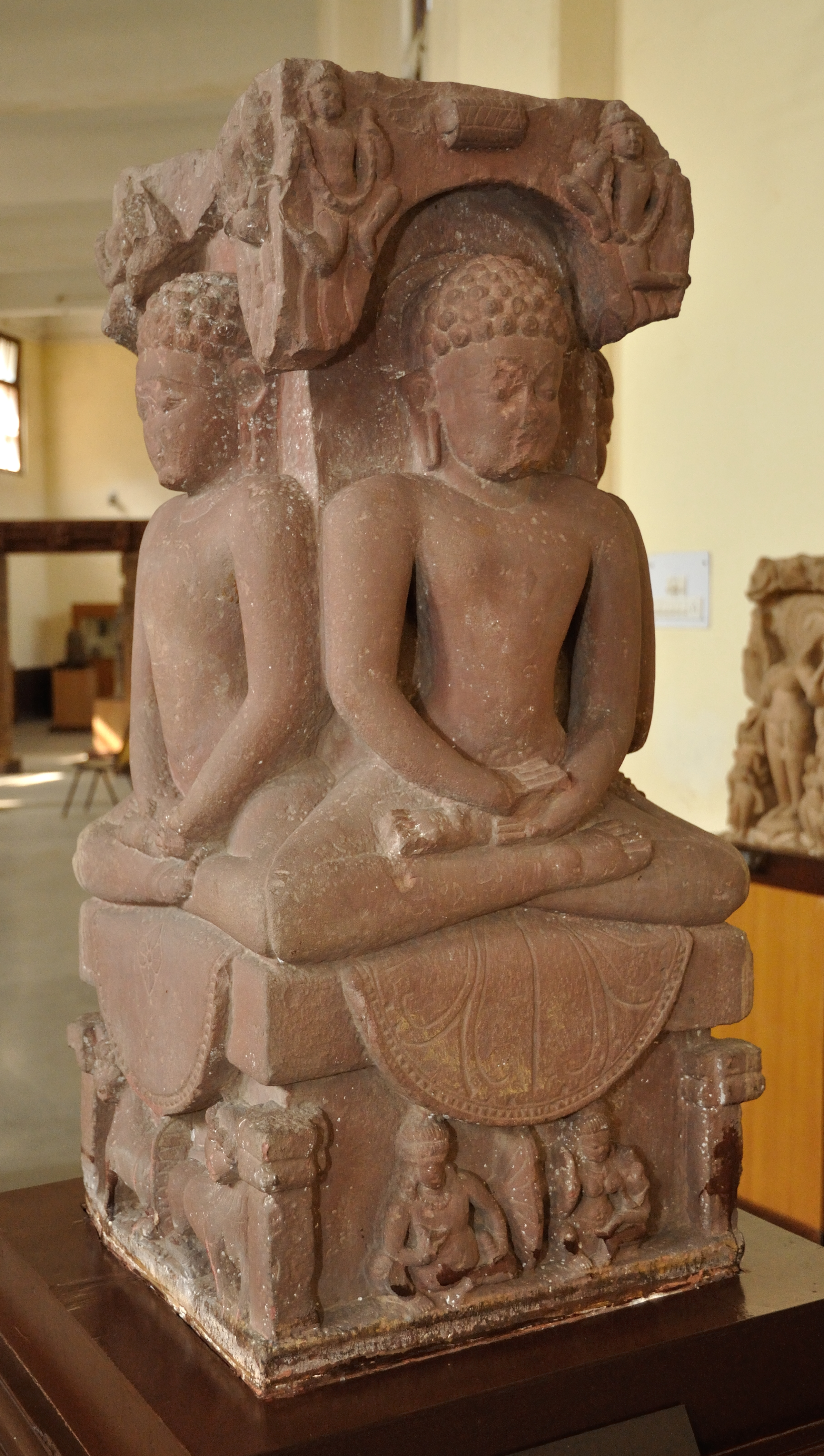 This artefact resides at the Government Museum, (hi: Rashtriya Sangrahalaya) formerly The Curzon Museum of Archaeology, Museum Road or Murari Lal Rajpal road, Dampier Nagar, Mathura, Uttar Pradesh, India. This museum is administrating by the State Government of Uttar Pradesh of India.